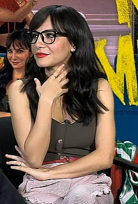 Martha Higareda in 2019